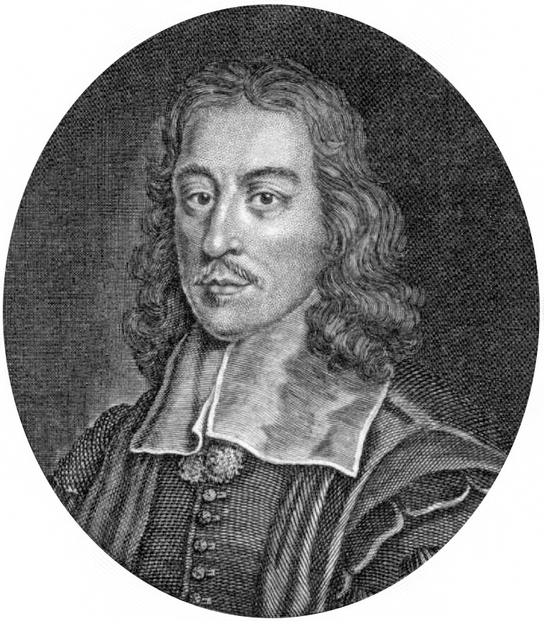 Thomas Willis, British Anatomist (1621-1675)